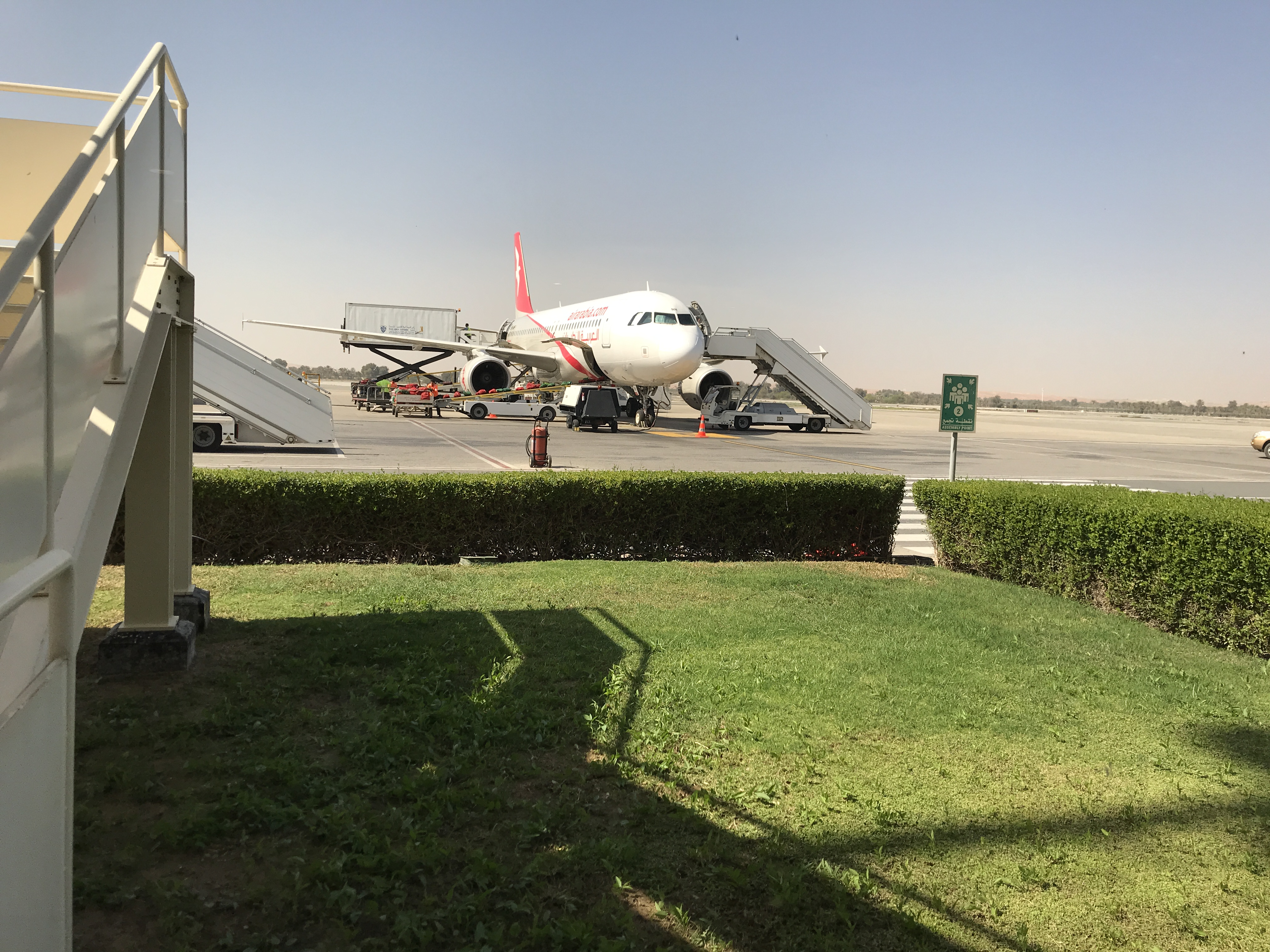 An A320 Air Arabia aircraft in Ras Al Khaimah Airport